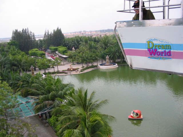 My Photo at Dream World, a theme park, Thailand